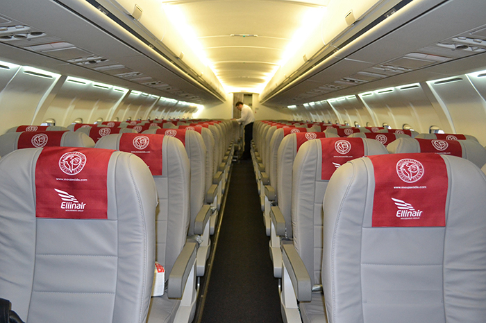 Ellinair aircraft interior